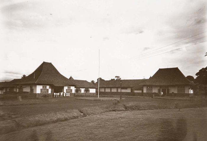 Red Cross Hospital, Buitenzorg